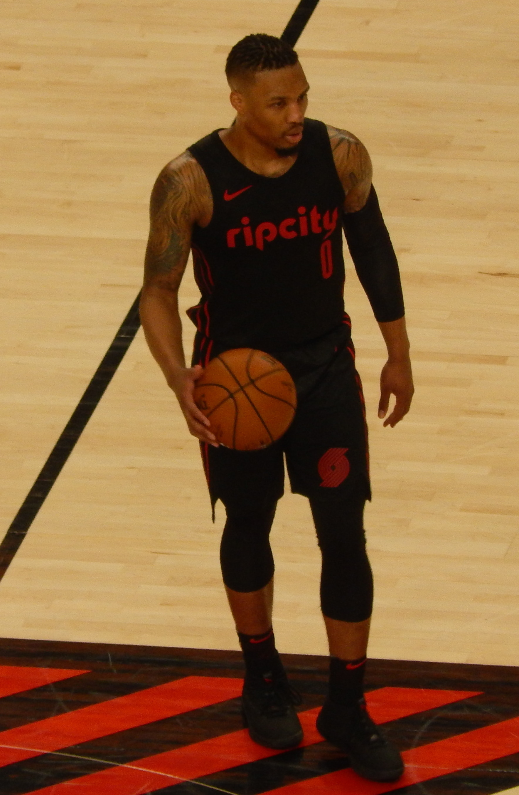 Damian Lillard #0 of the Portland Trail Blazers against the Sacramento Kings on February 27, 2018 at Moda Center in Portland, Oregon.